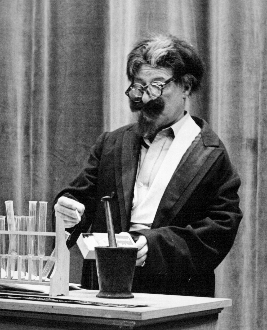 Photo of George Jessel as Professor Gonzamacher (a comic character he performed) from the television variety show All Star Revue. The item has no copyright markings on it as can be seen in the links above.